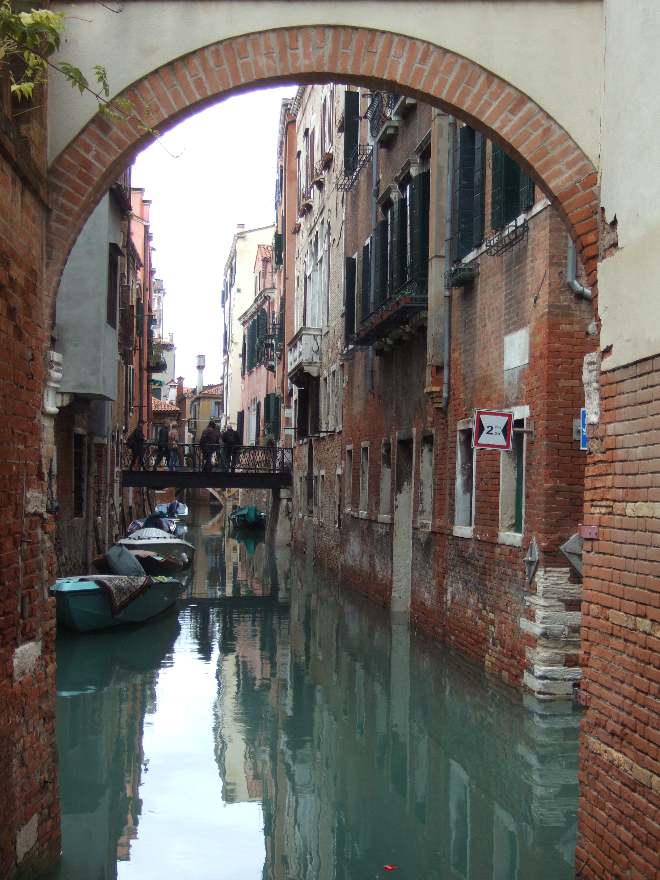 Rio di San Boldo, view from RAMO SECONDO DEL TEATRO, Santa Crose